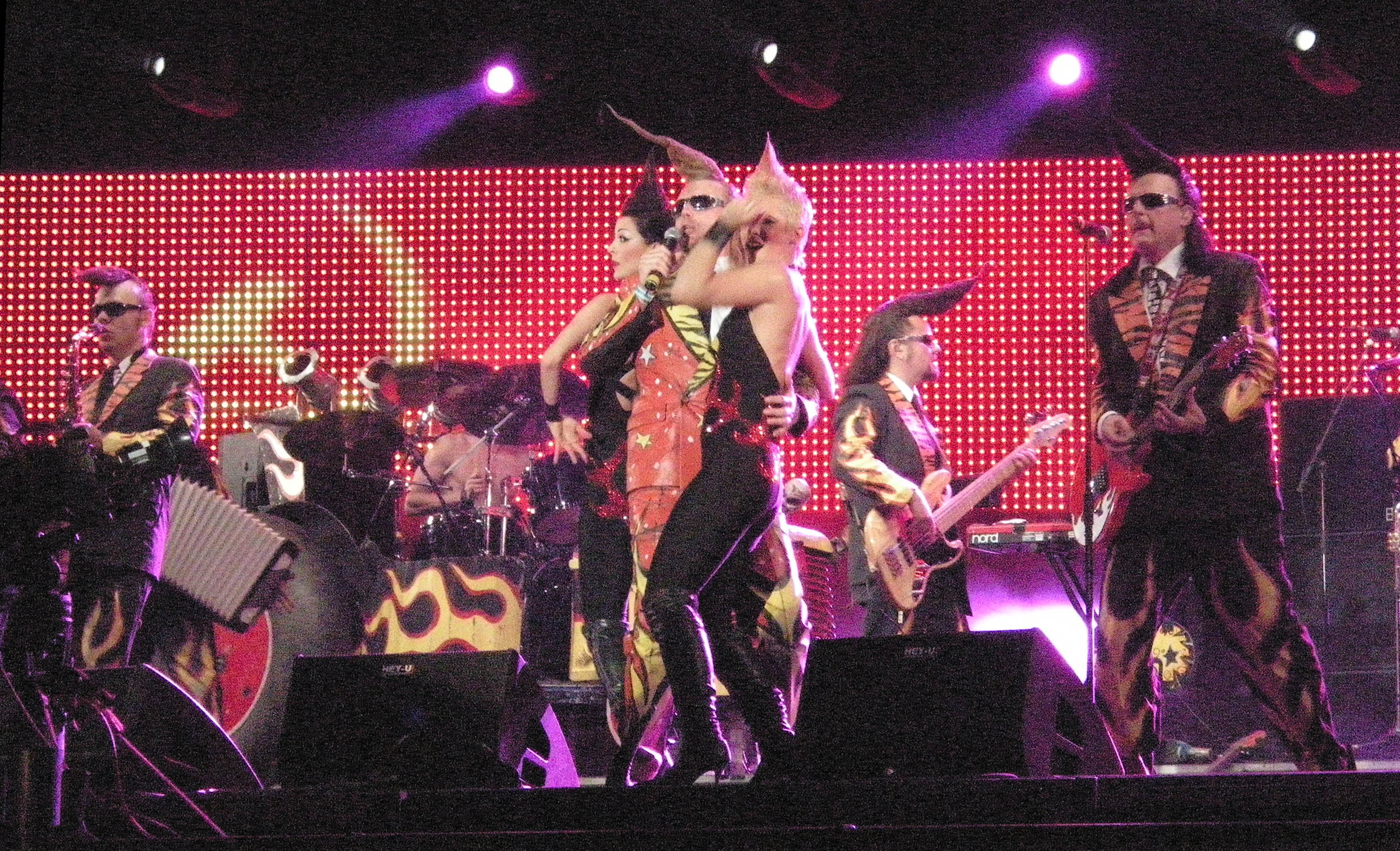 Leningrad Cowboys in Vienna, Austria, Donauinselfest 2008.